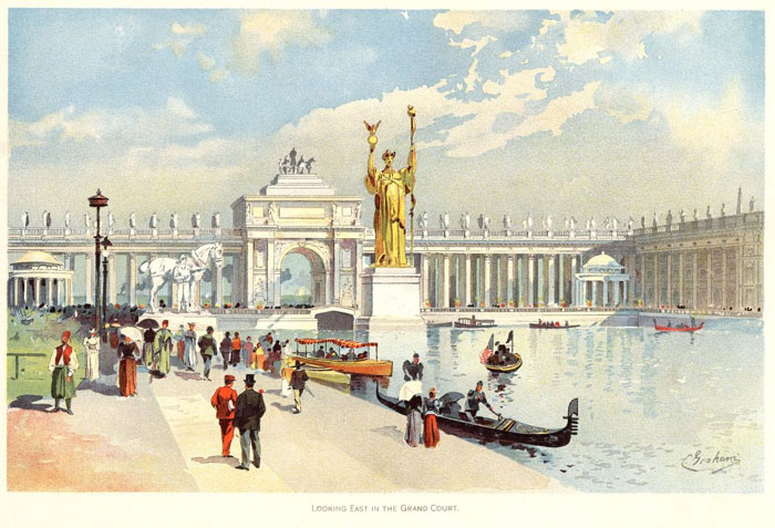 "Looking East in the Grand Court." Color plate by Charles S. Graham from The World's Fair in Water Colors. Size of original document approximately 8.8 x 11 inches. 1893. Digitial Identifier: GN90799d_WFWC_10w World's Columbian Exposition Collection at The Field Museum